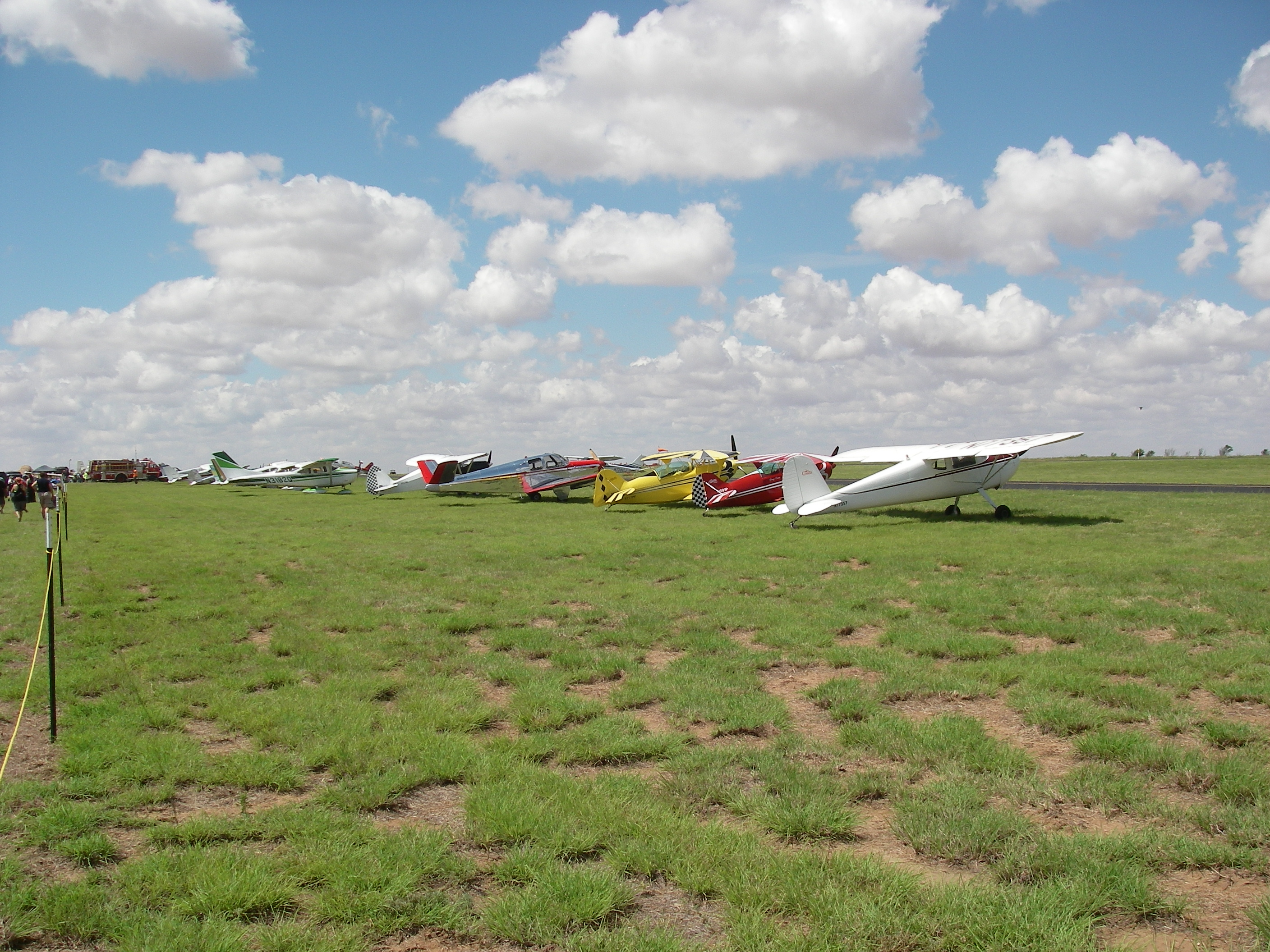 Aircraft and sky at the South Plains Airshow, Slaton, Texas.